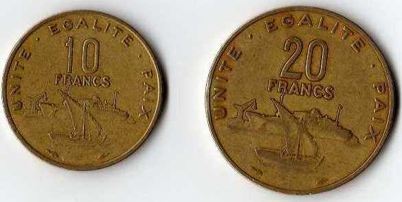 10 & 20 djiboutian francs - obverses